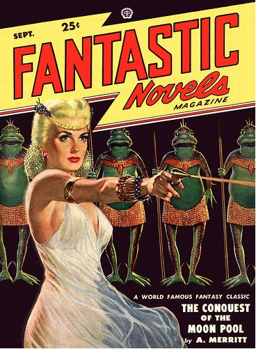 Cover of the September 1948 issue of Fantastic Novels magazine